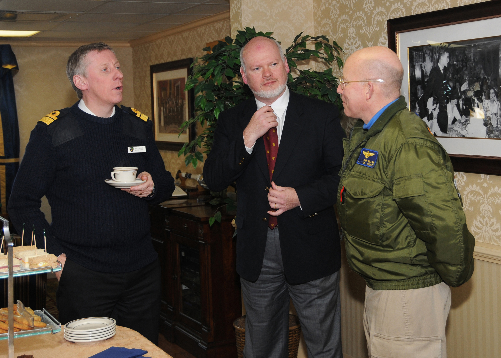 U.S. Navy Capt. Chip Miller, right, the commanding officer of the USS George H.W. Bush (CVN 77), meets with Rear Adm. Ian F. Corder, left, the deputy commander of Naval Strike Forces NATO, and Robert Sandys, center, in the commanding officers in-port cabin while under way in the Atlantic Ocean Feb. 19, 2011. George H.W. Bush was conducting a joint task force exercise in preparation for deployment. (U.S. Navy photo by Mass Communication Specialist 3rd Class Leonard Adams/Released)